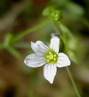 Linum catharticum Source : [1]